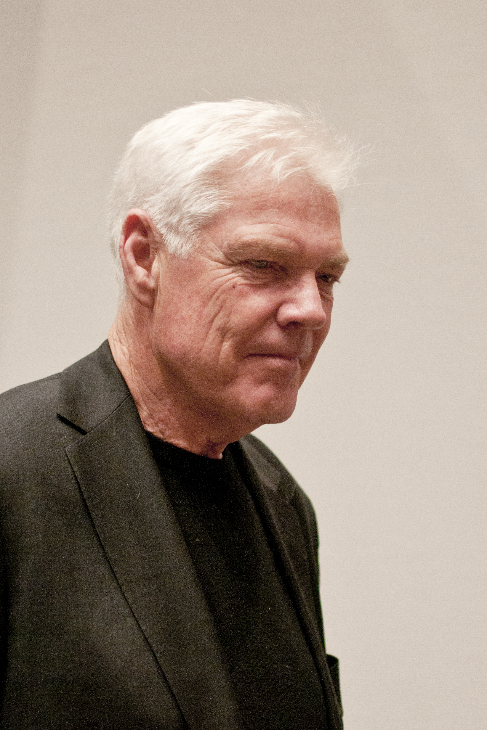 Arne Treholt speaks at The Bergen Student Society, November 12th 2010.